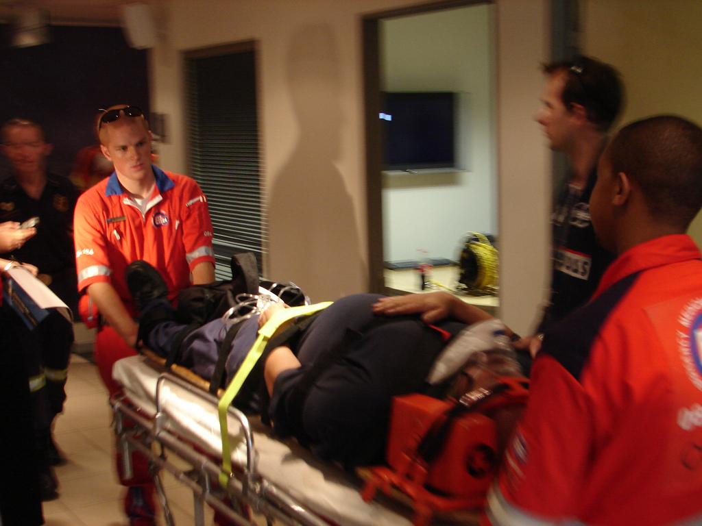 Paramedics wheeling a patient out strapped on a stretcher after injury